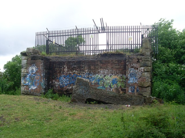 Fence around disused railway bridge By the Clyde Walkway just north of Westburn Village.